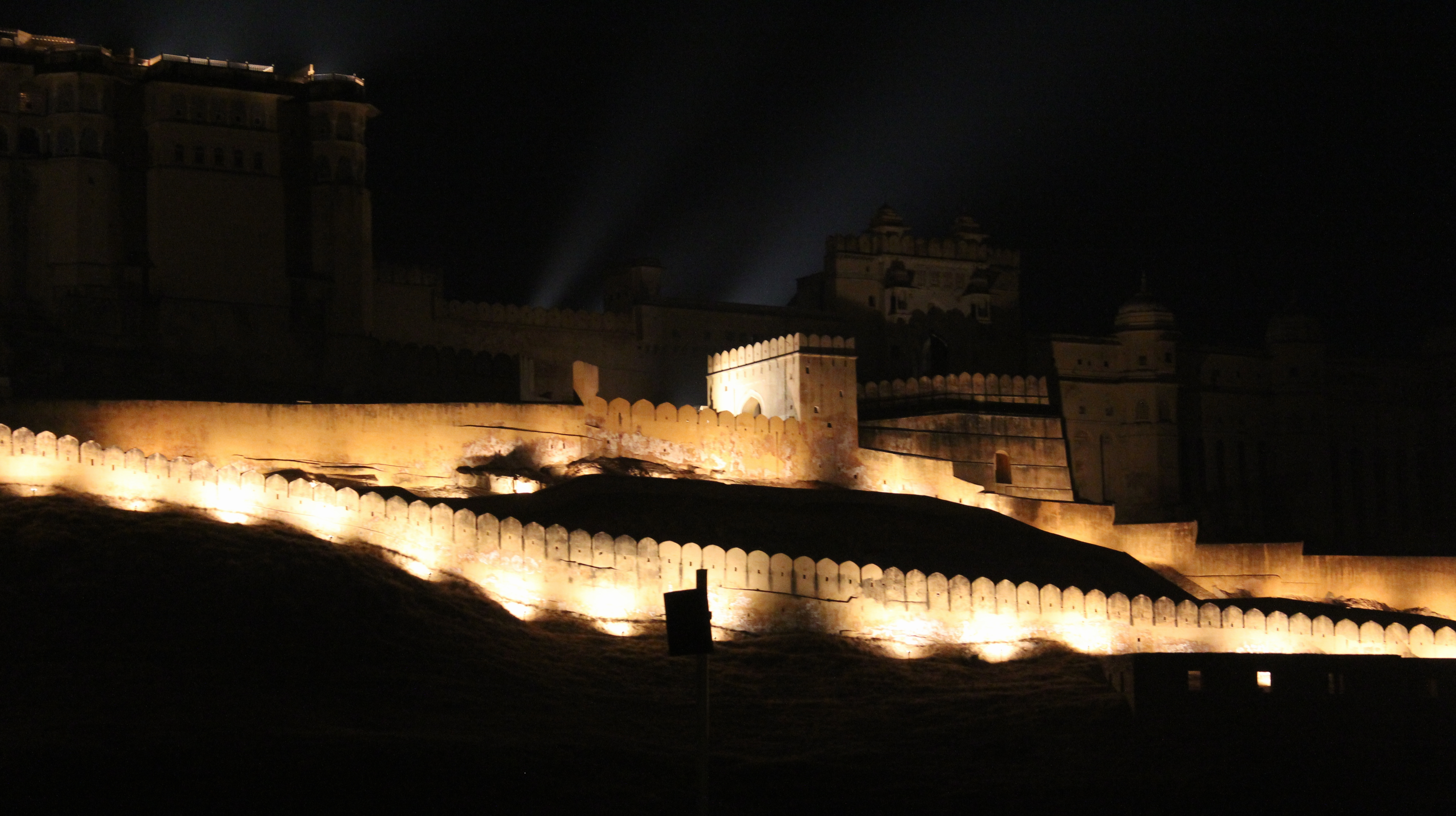 Amer fort is situated outside jaipur .It is a majestic fort overlooking the city of jaipur